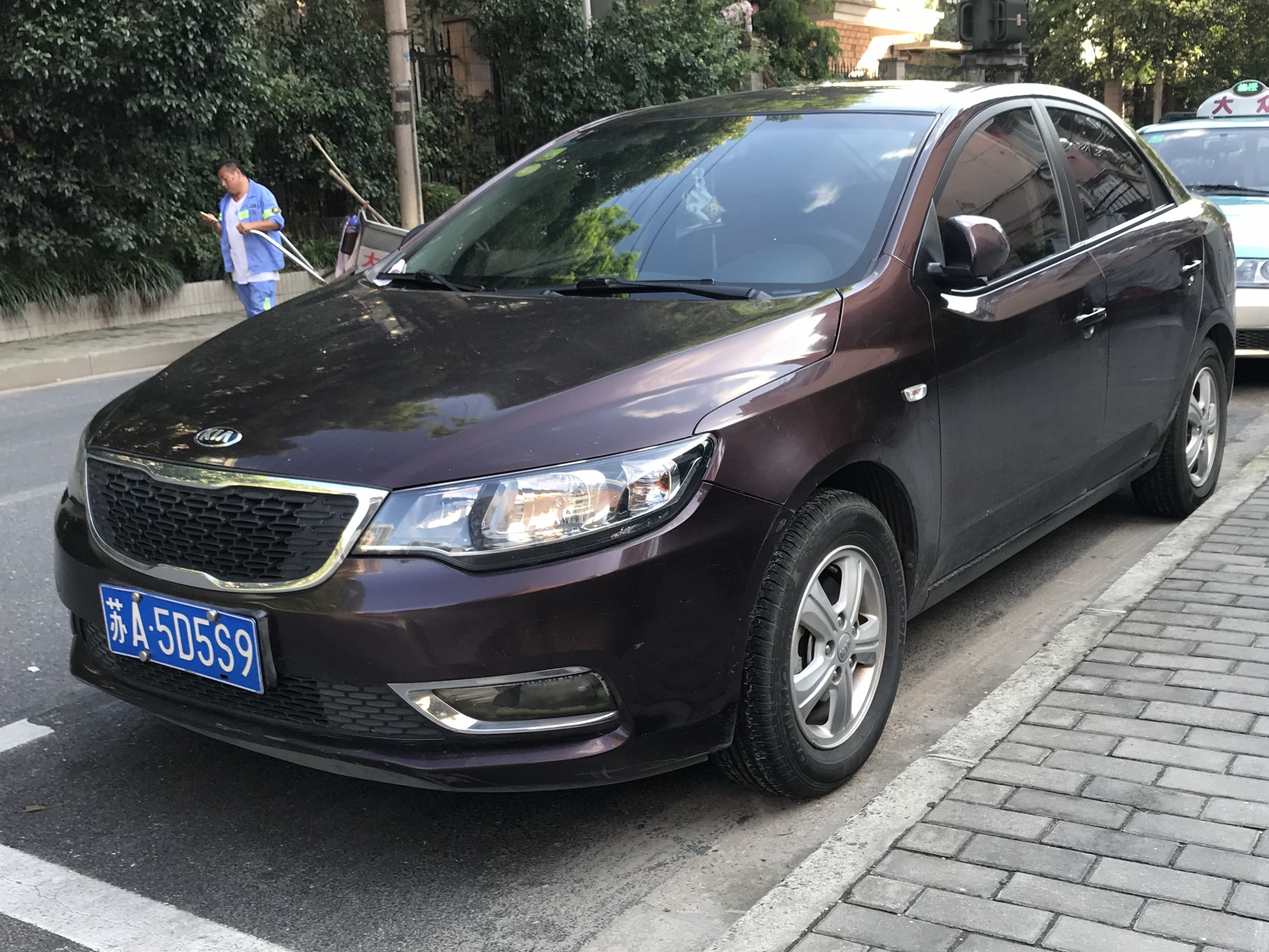 Kia Forte R